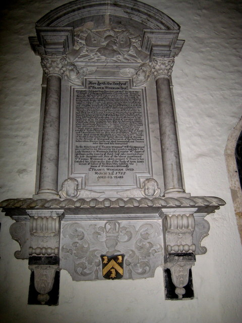 Wyndham Memorial - St Andrew's Church Trent Not only is the memorial to Sir Francis Wyndham who died in 1715 but also to his family and in particular his third son Colonel Francis Wyndham. The Colonel is famous for hiding Charles II in his flight from the Battle of Worcester in his wife's chambers at the manor house. He then tried to secure a boat at Charmouth for the King's escape to France. In recognition of his good deeds Charles knighted him. He also became governor of Dunster Castle in the Civil War and married Anne Gerard, daughter of Thomas Gerard of Trent. For